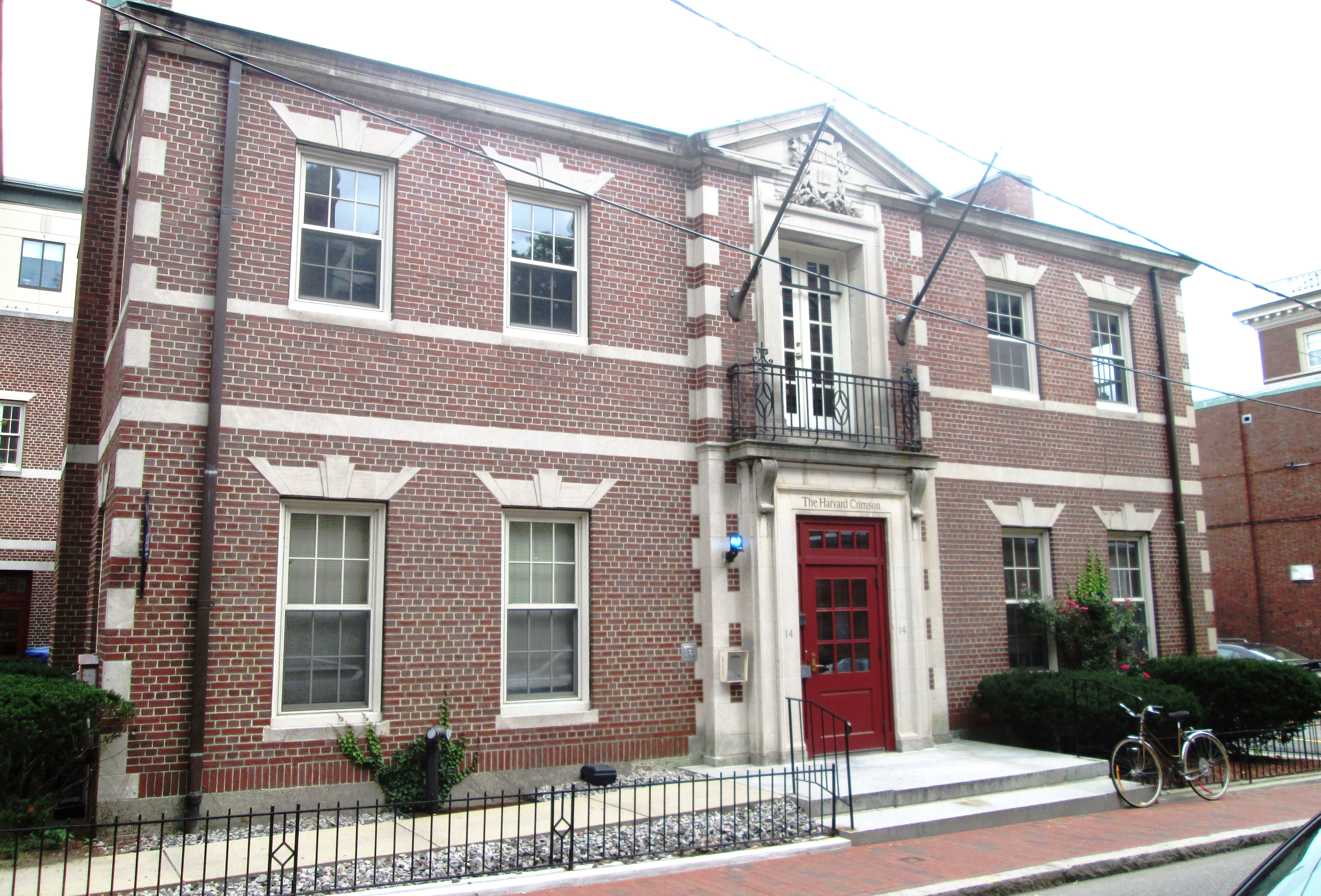 The Harvard Crimson Building, located at 14 Plympton Street in Cambridge, Massachusetts, is the home of The Harvard Crimson, the daily Harvard newspaper, which is completely run by students. The building was commissioned by the paper in 1915 and was designed by Jardine, Hill & Murdoch. It has been called "Stolid, institutional and boring. All the things the Crimson isn't." (Source: Harvard University: An Architectural Tour)